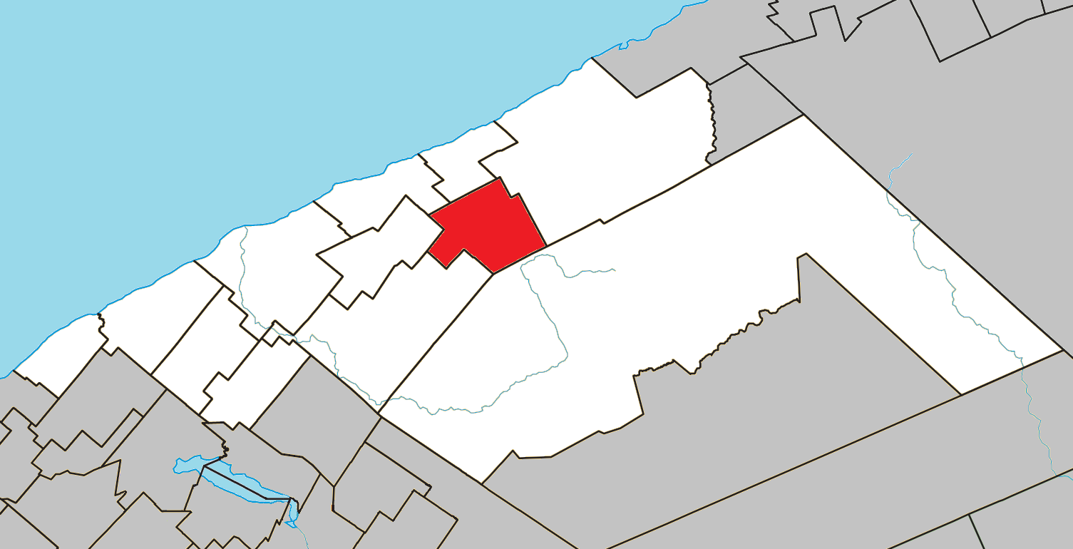 Location of Saint-Jean-de-Cherbourg, Quebec within Matane Regional County Municipality.